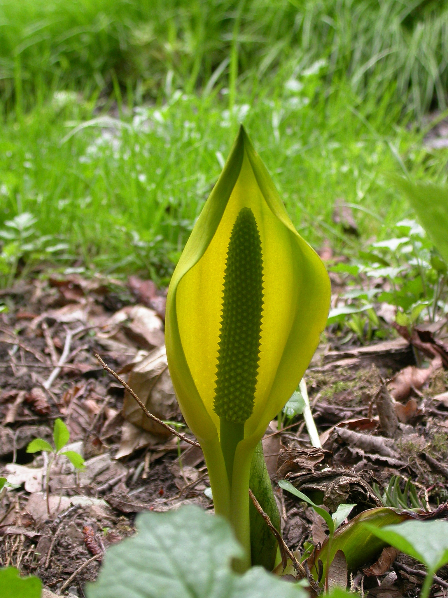 Flowering Lysichiton americanus in Pruhonice parque, Czech republic